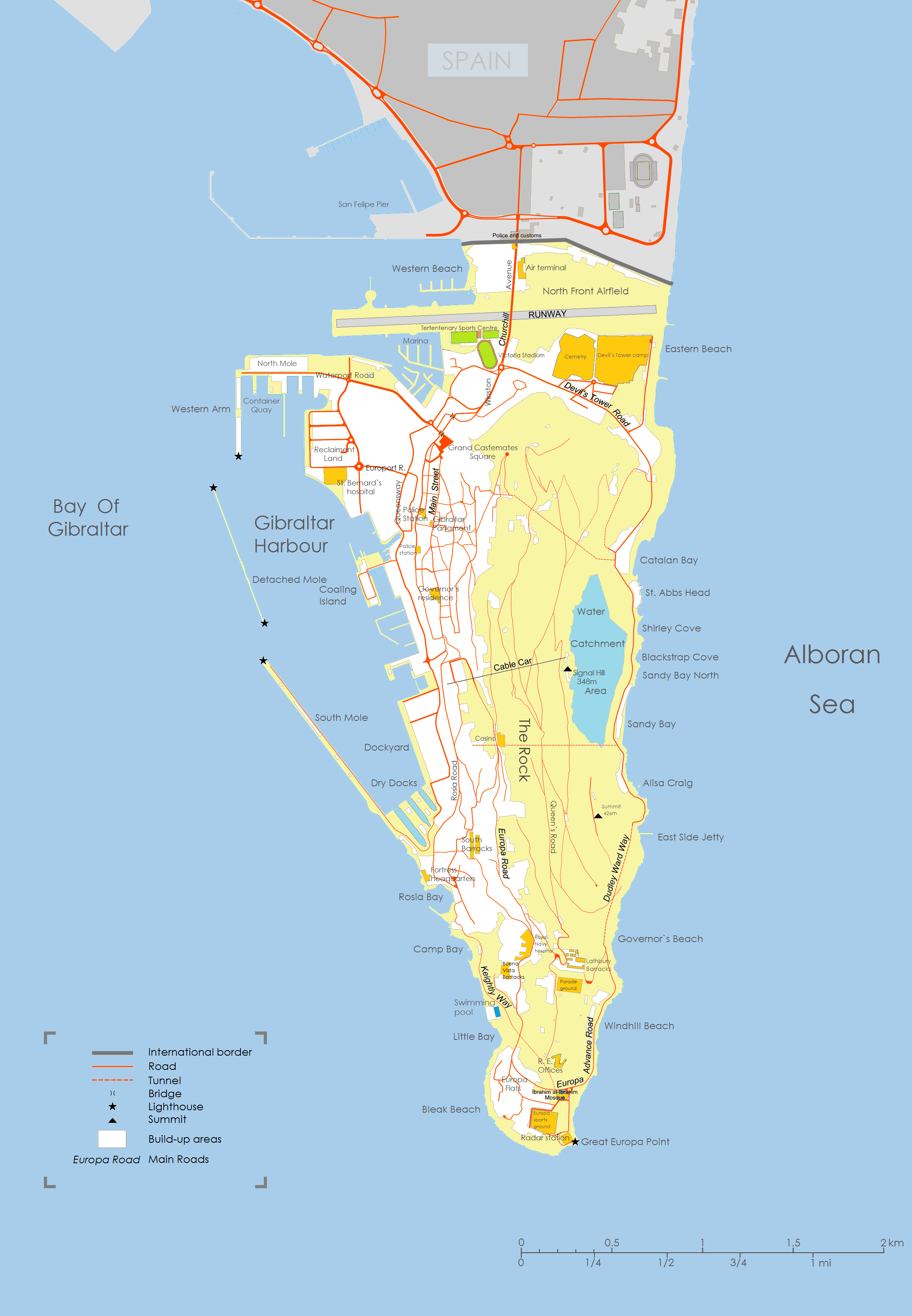 Gibraltar Map